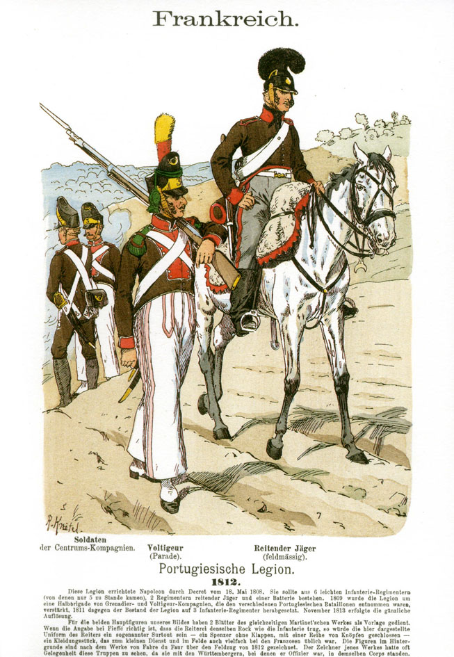 Soldiers of the Portuguese Legion of the French Grande Armée during the Napoleonic Wars.